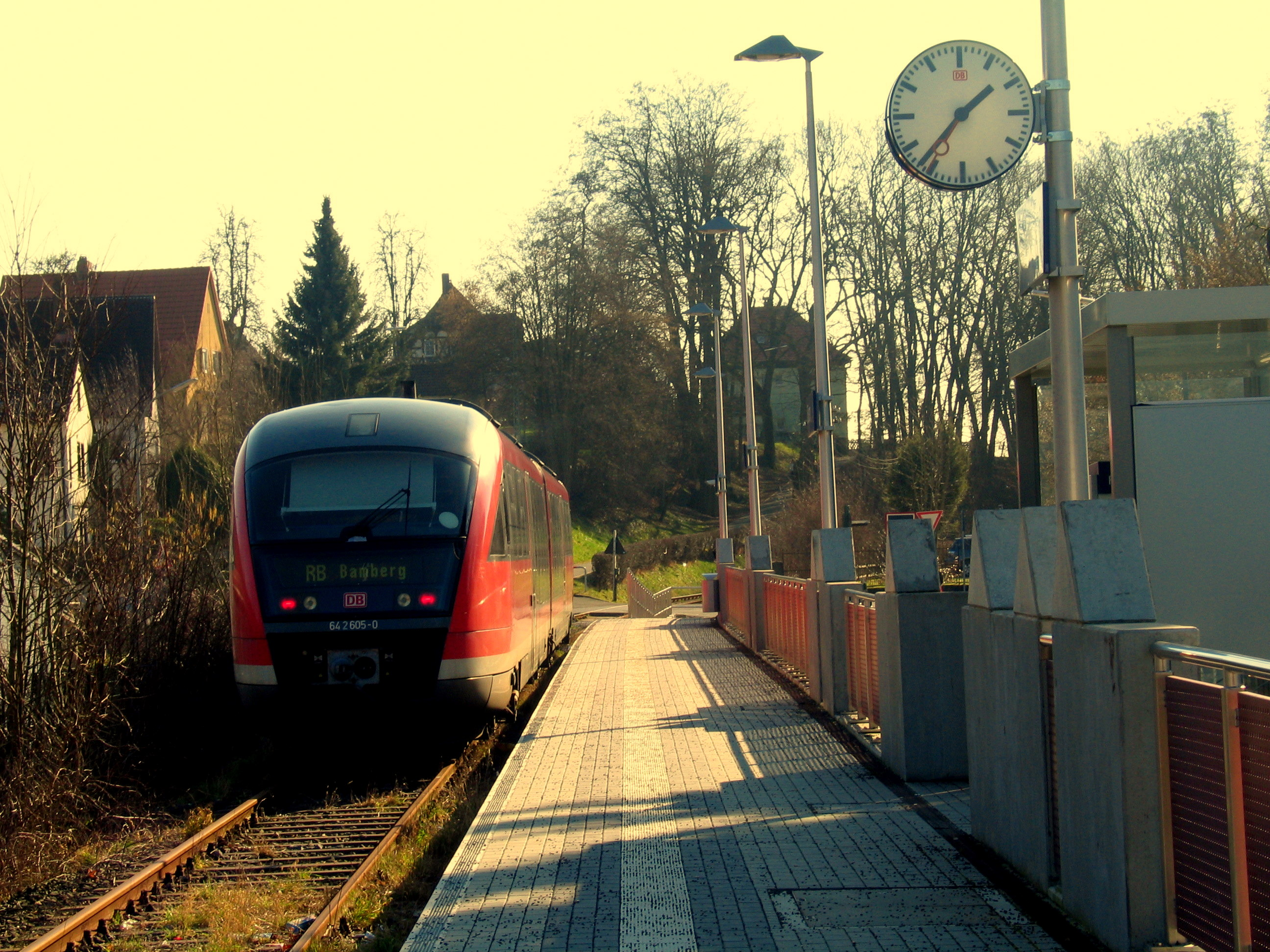 Ebern: New train stop